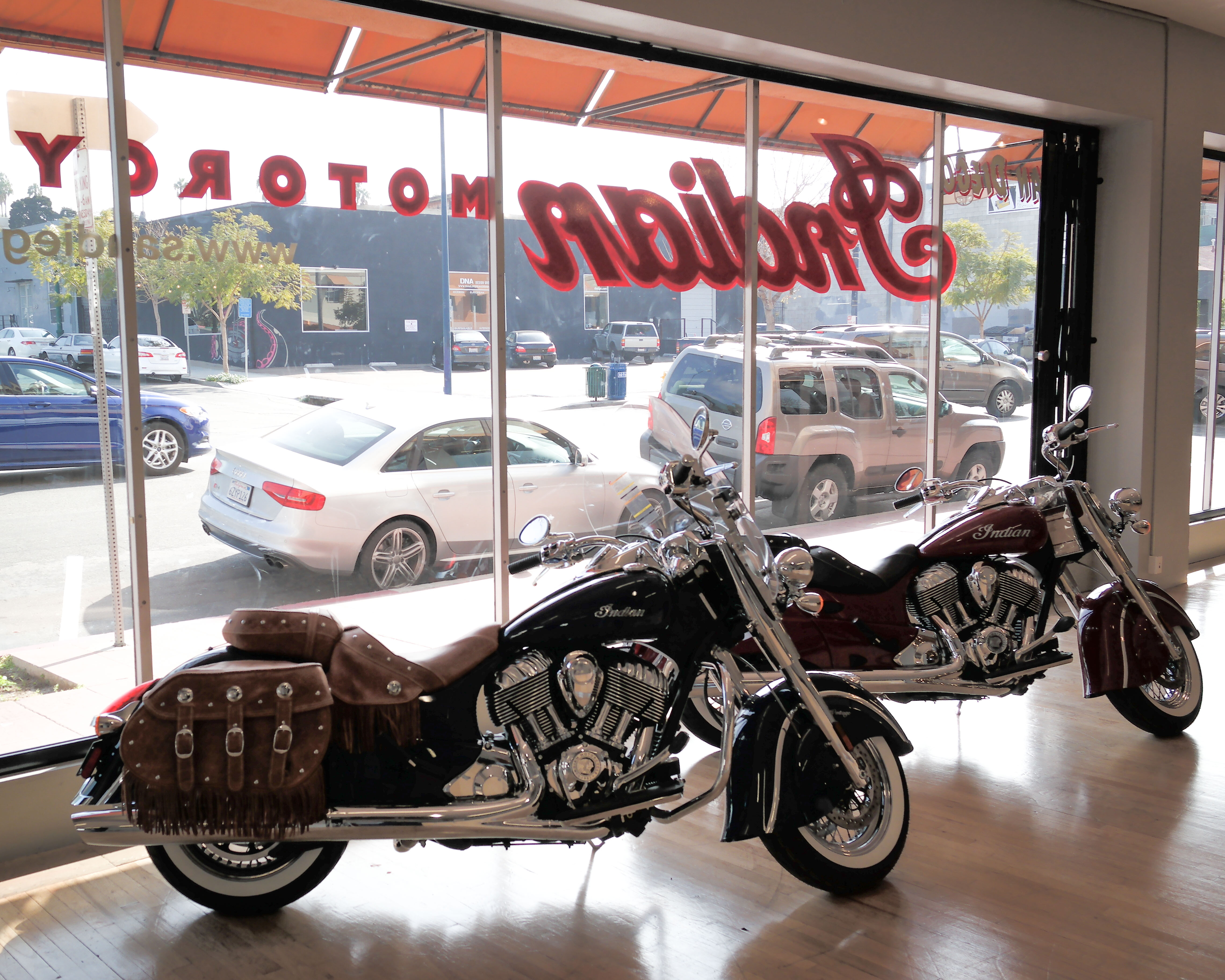 The Indian Motorcycles store in San Diego's Little Italy neighborhood